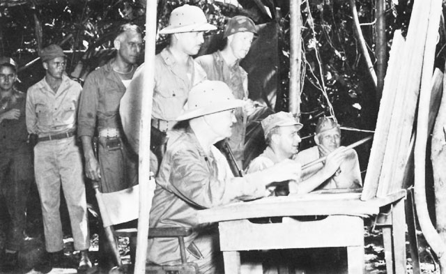 Admiral Halsey, Maj. Gen. Robert S. Beightler, and Maj. Gen. Roy S. Geiger (seated, left to right) discuss a map problem at the 37th Division command post on Bougainville.